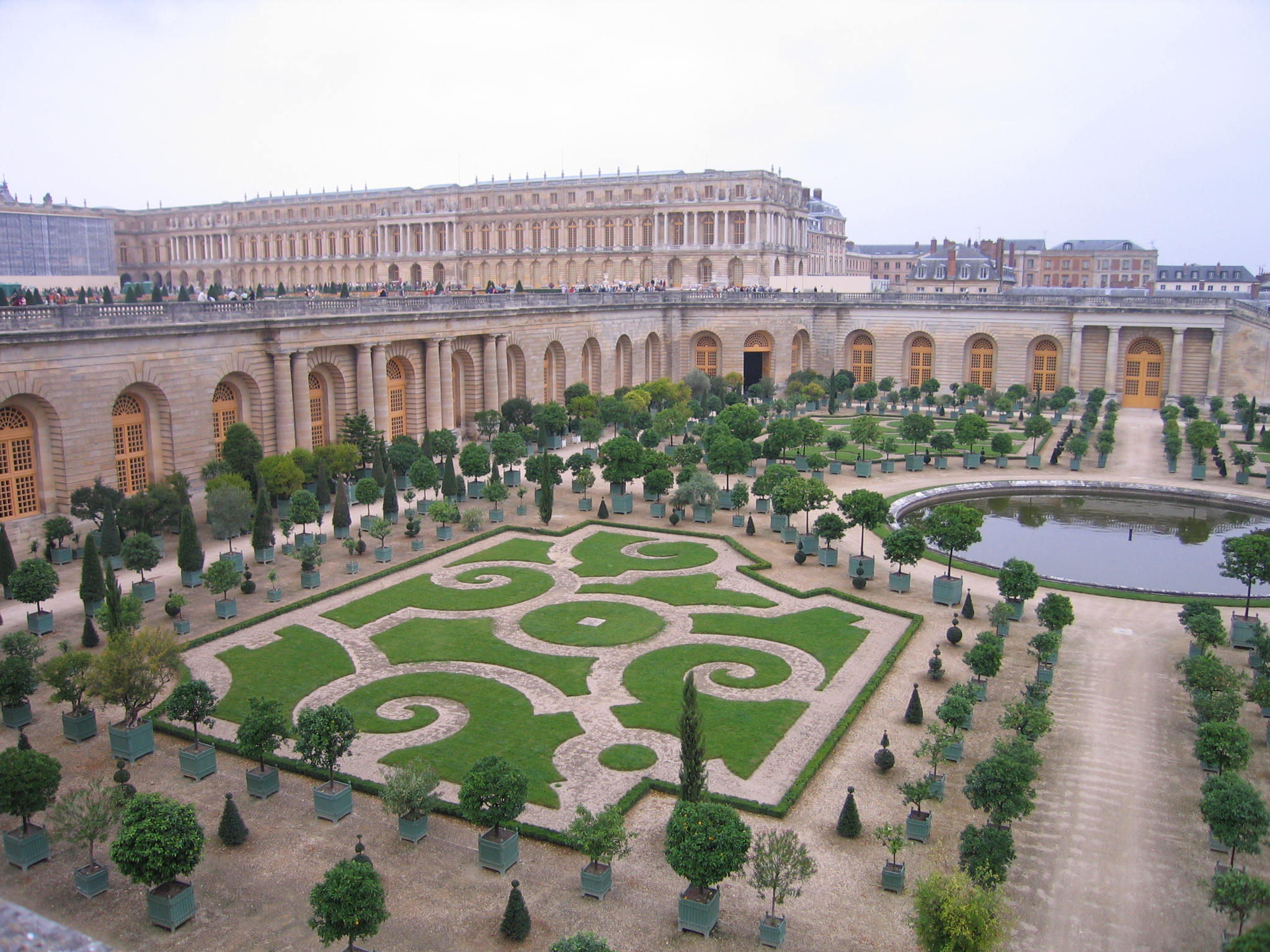 Orangery of the château de Versailles